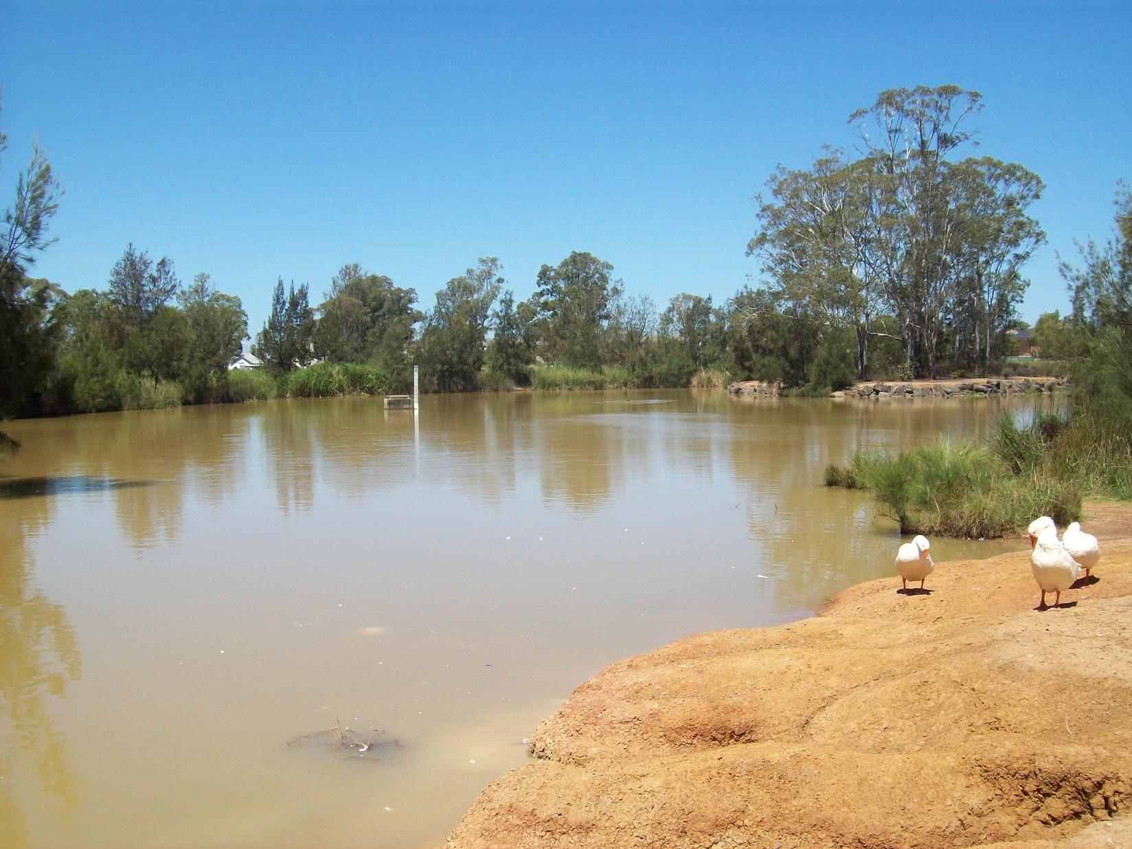 Stormwater retention basin with beautification works in Plumpton Park, Plumpton, New South Wales